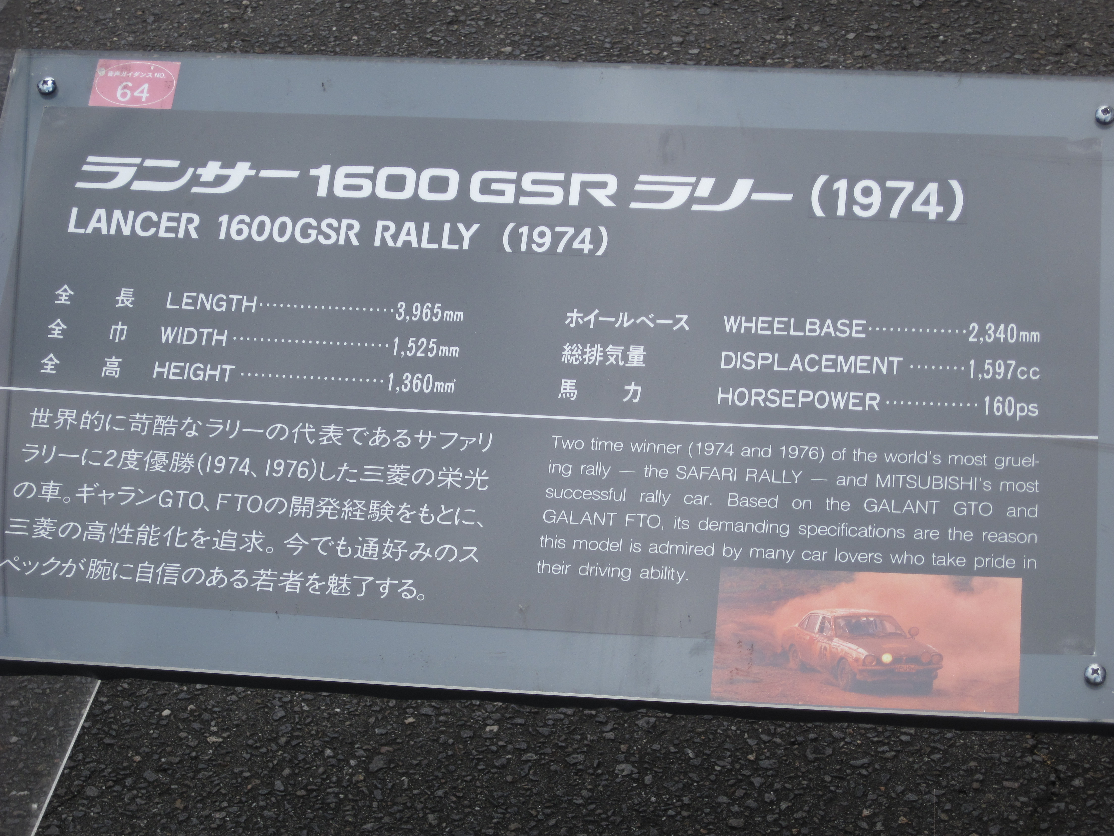 This is a photo of the museum signboard for the Safari Rally Lancer . I took the photo outside the museum for the Mitsubishi "Passenger Car Engineering Center" in Okazaki-city, Aichi, Japan